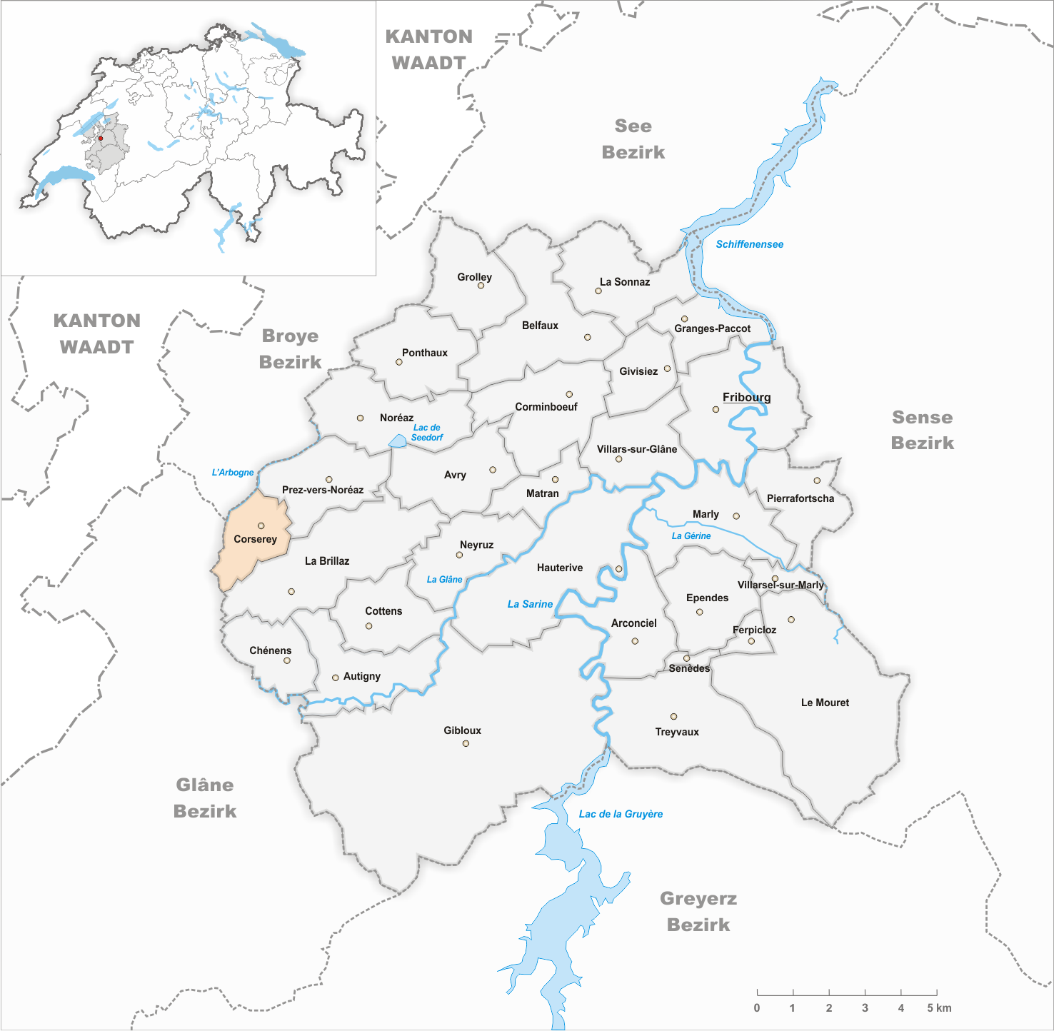 Municipality Corserey